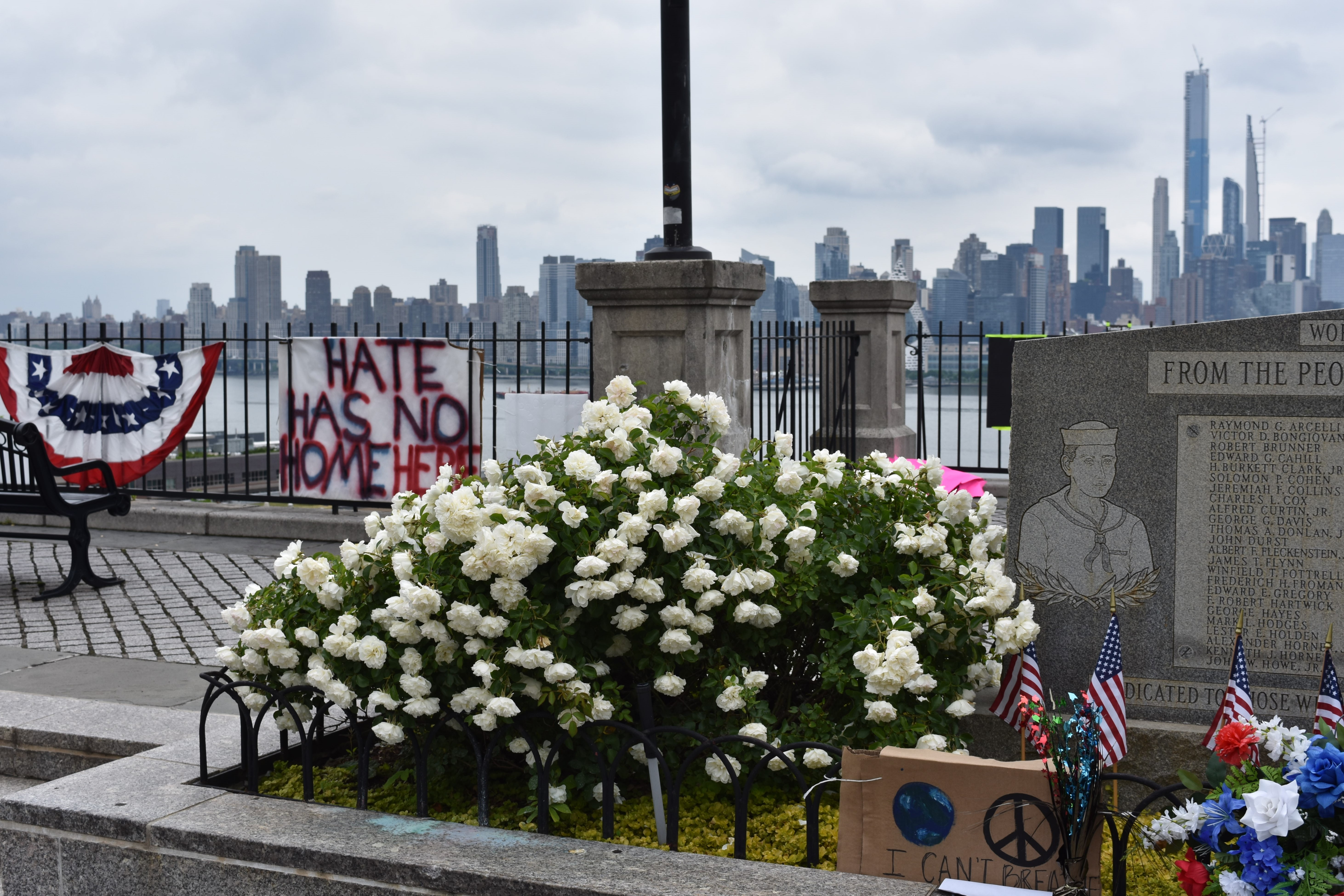 The World War I memorial in Weehawken with George Floyd protest signs tucked along fences.